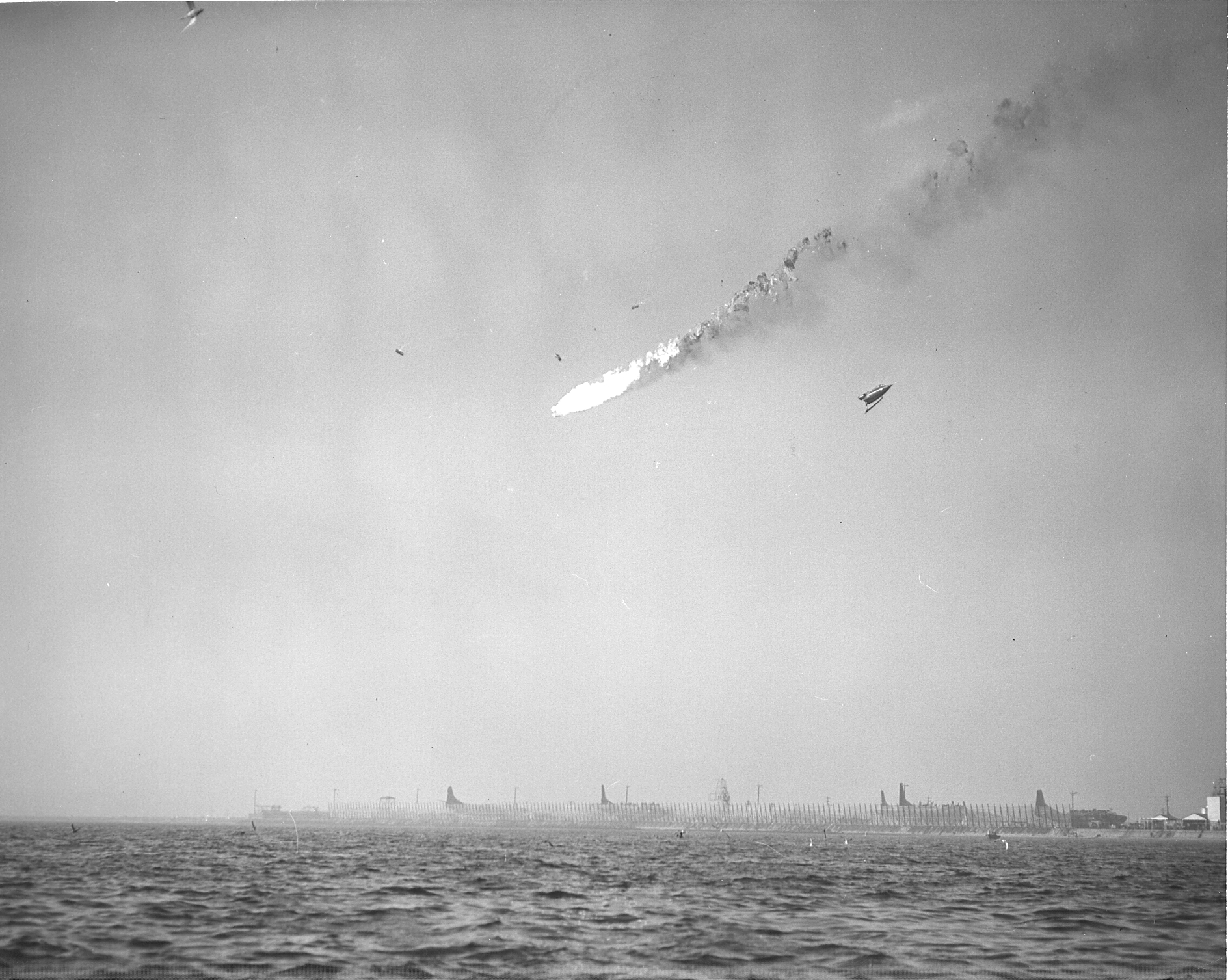 The U.S. Navy Convair XF2Y-1 Sea Dart (BuNo 135762) disintegrates in mid-air over San Diego Bay on 4 November 1954, California (USA), during a demonstration for Navy officials and the press, killing Convair test pilot Charles E. Richbourg when he inadvertently exceeded the airframe limitations.